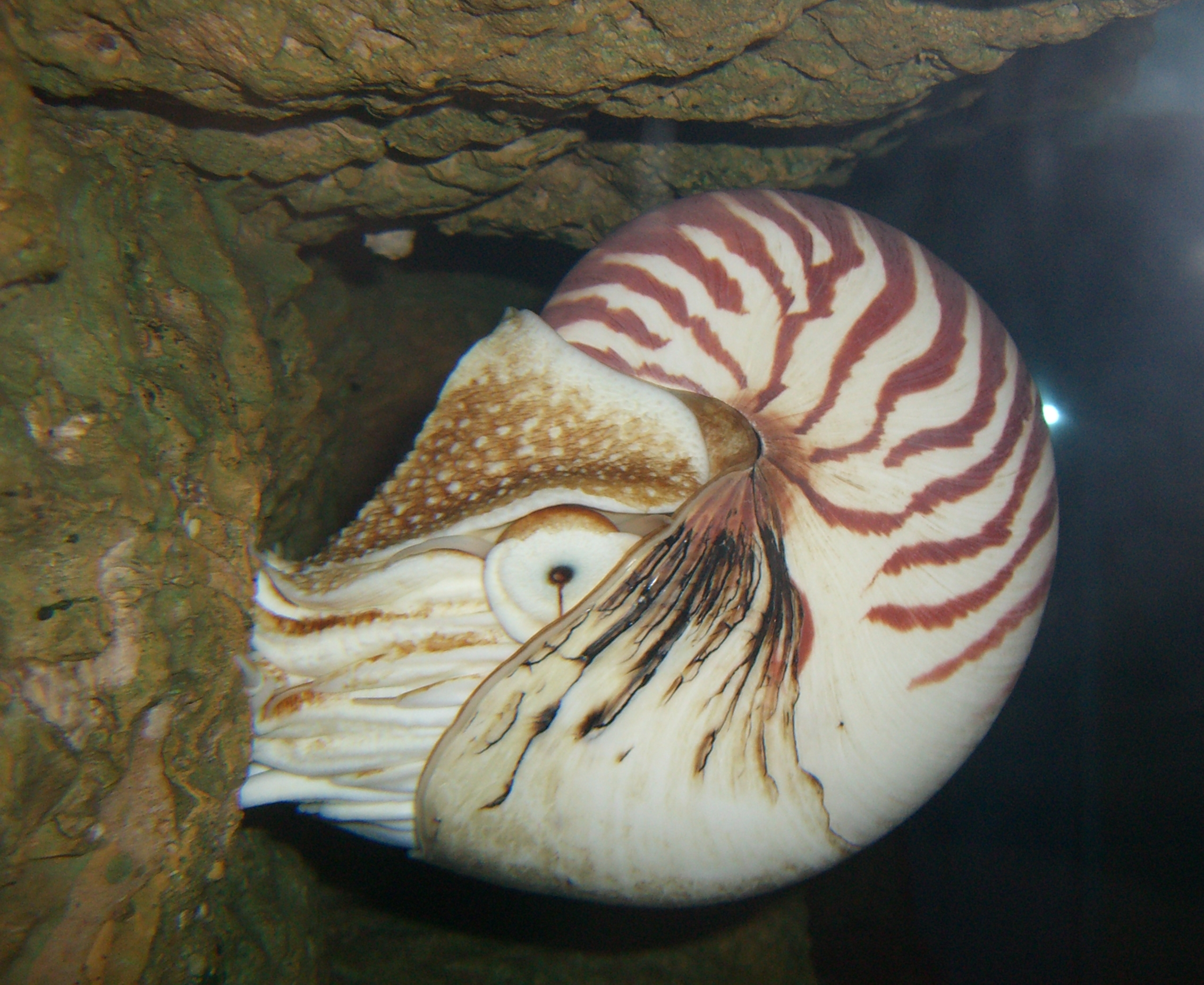 Nautilus pompilius, Dalian Aquarium, China